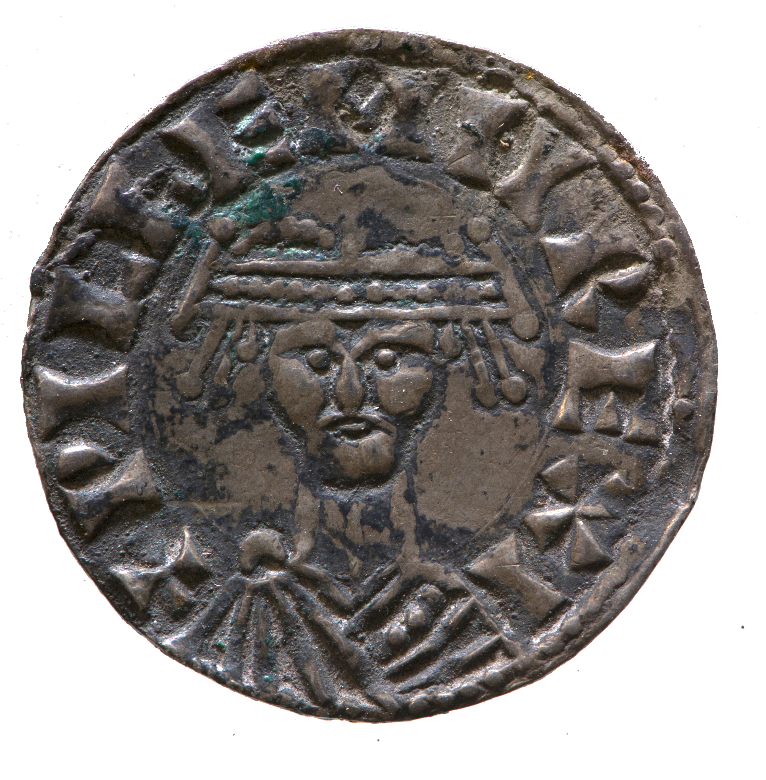 Obverse (front) of a silver penny of William the Conqueror Head facing forward wearing bonnet.